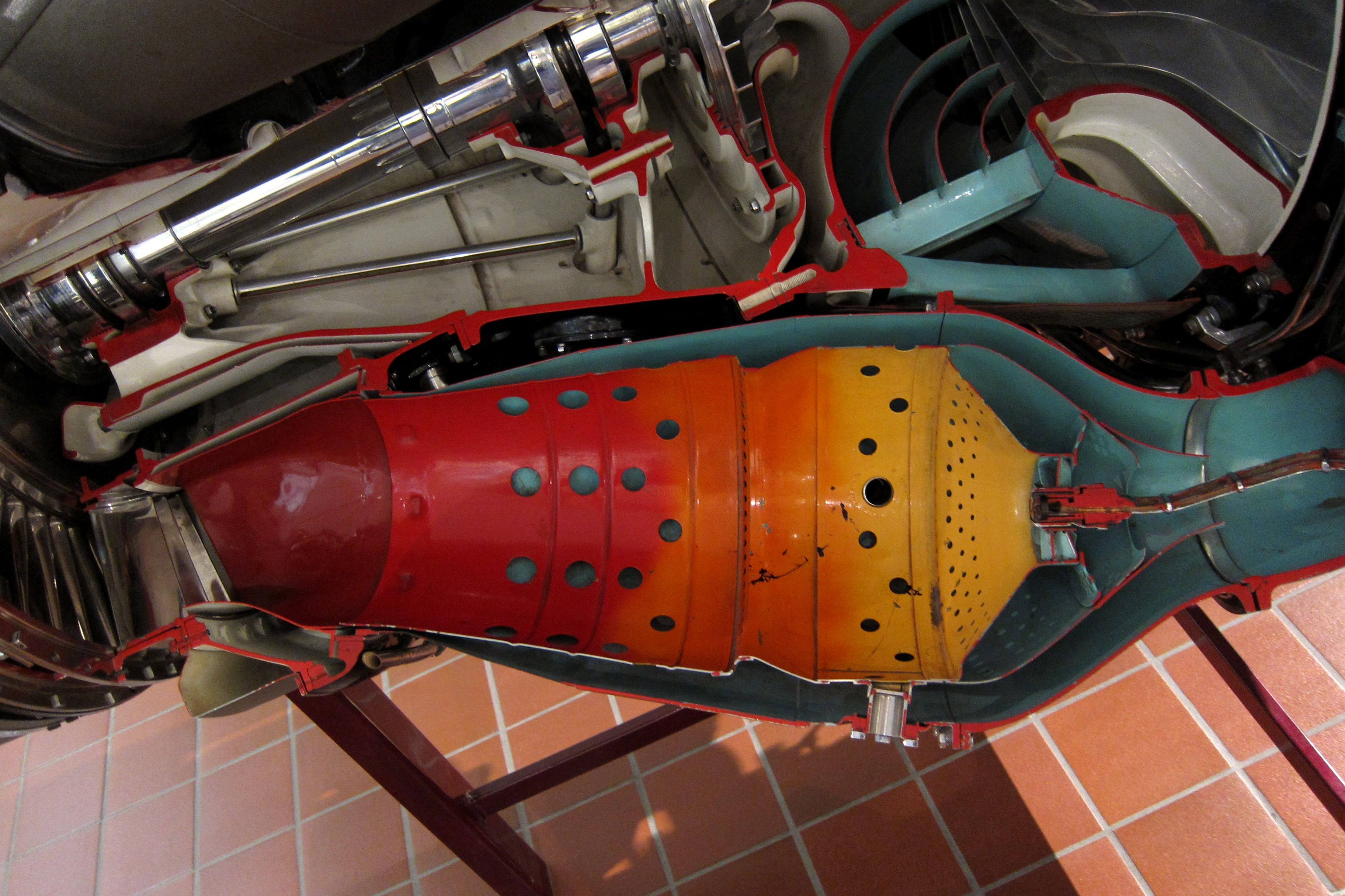 A sectioned and painted Combustor on a Rolls-Royce Nene turbojet engine, as displayed in the Deutsches Museum.